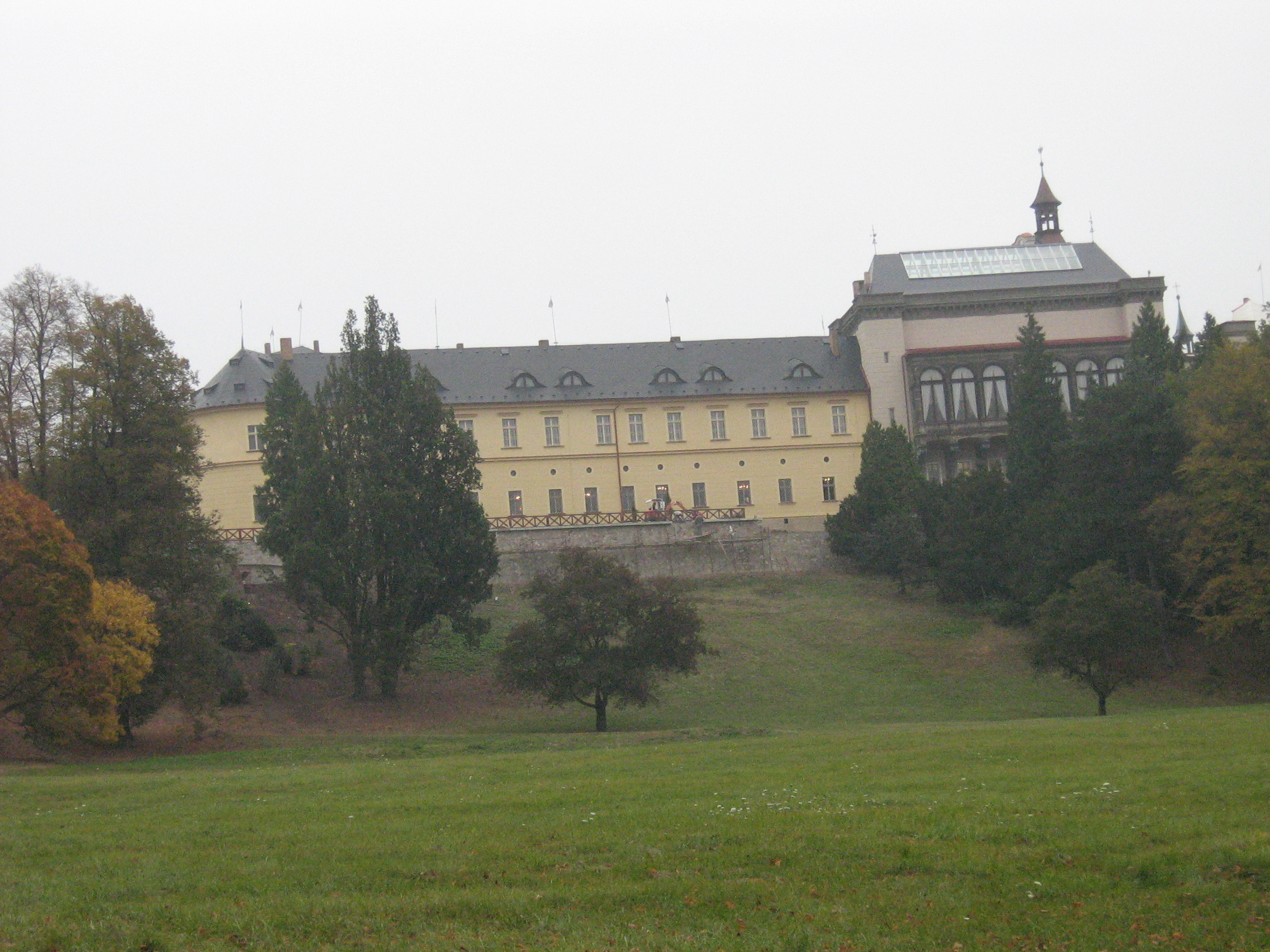 Photography of Zbiroh castle.